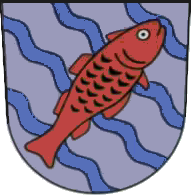 Coat of Arms of Schmeheim